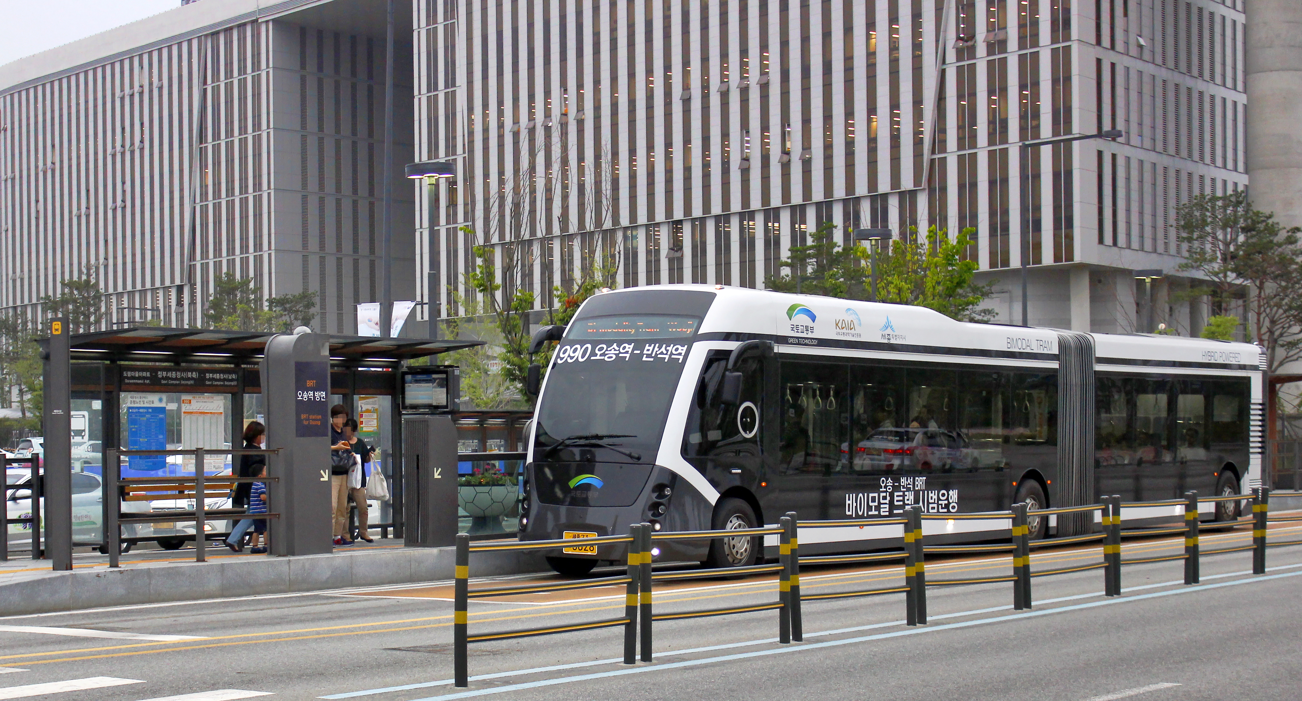 Sejong BRT Government Complex North Station Northbound